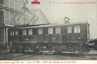 Electric locomotive Etat Z 6000, Invalides line (Paris - Versailles), 1924